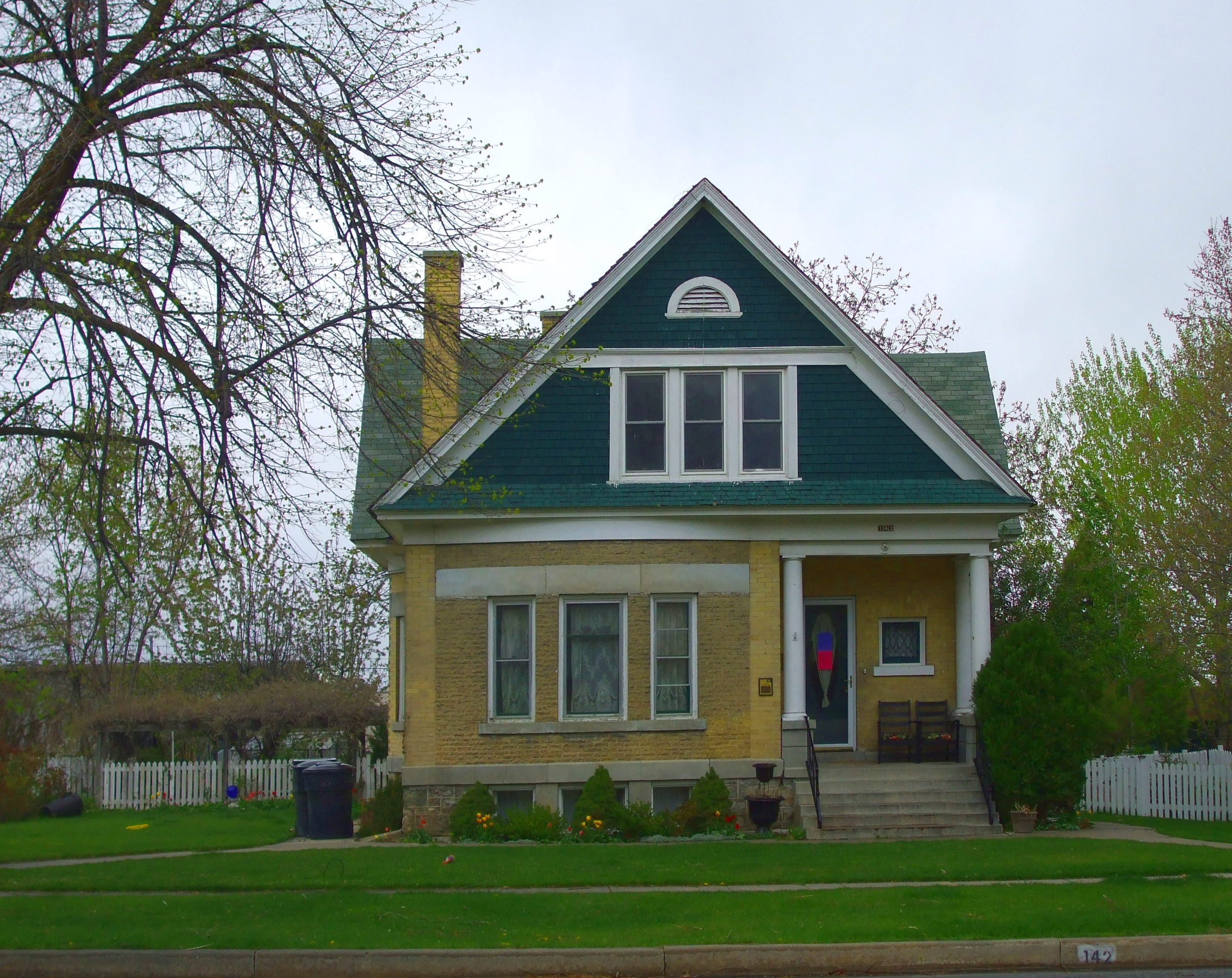 The Alma Compton House, a historic home in Brigham City, Utah, United States.